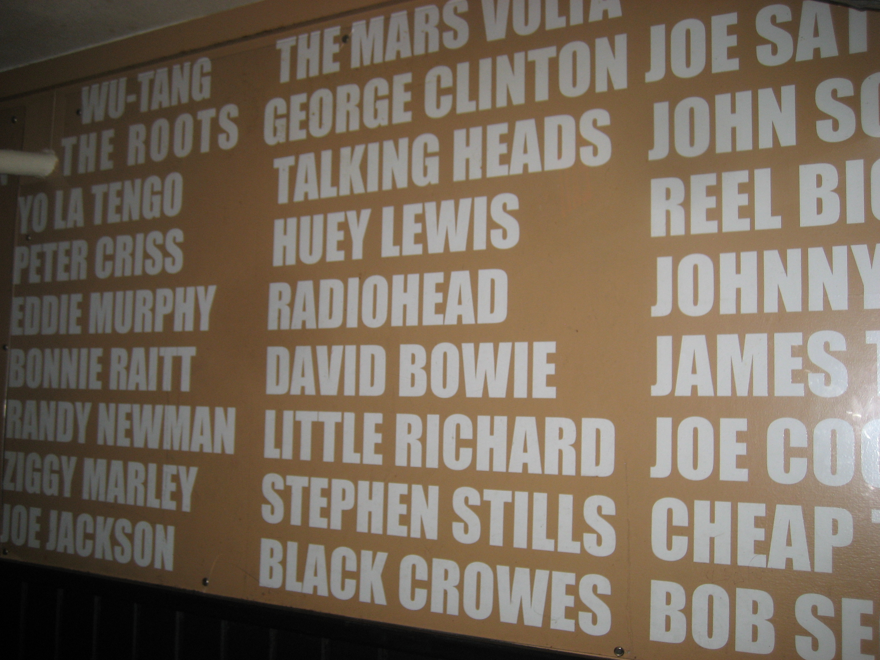 Interior wall in coatroom of Toad's Place in New Haven, Connecticut